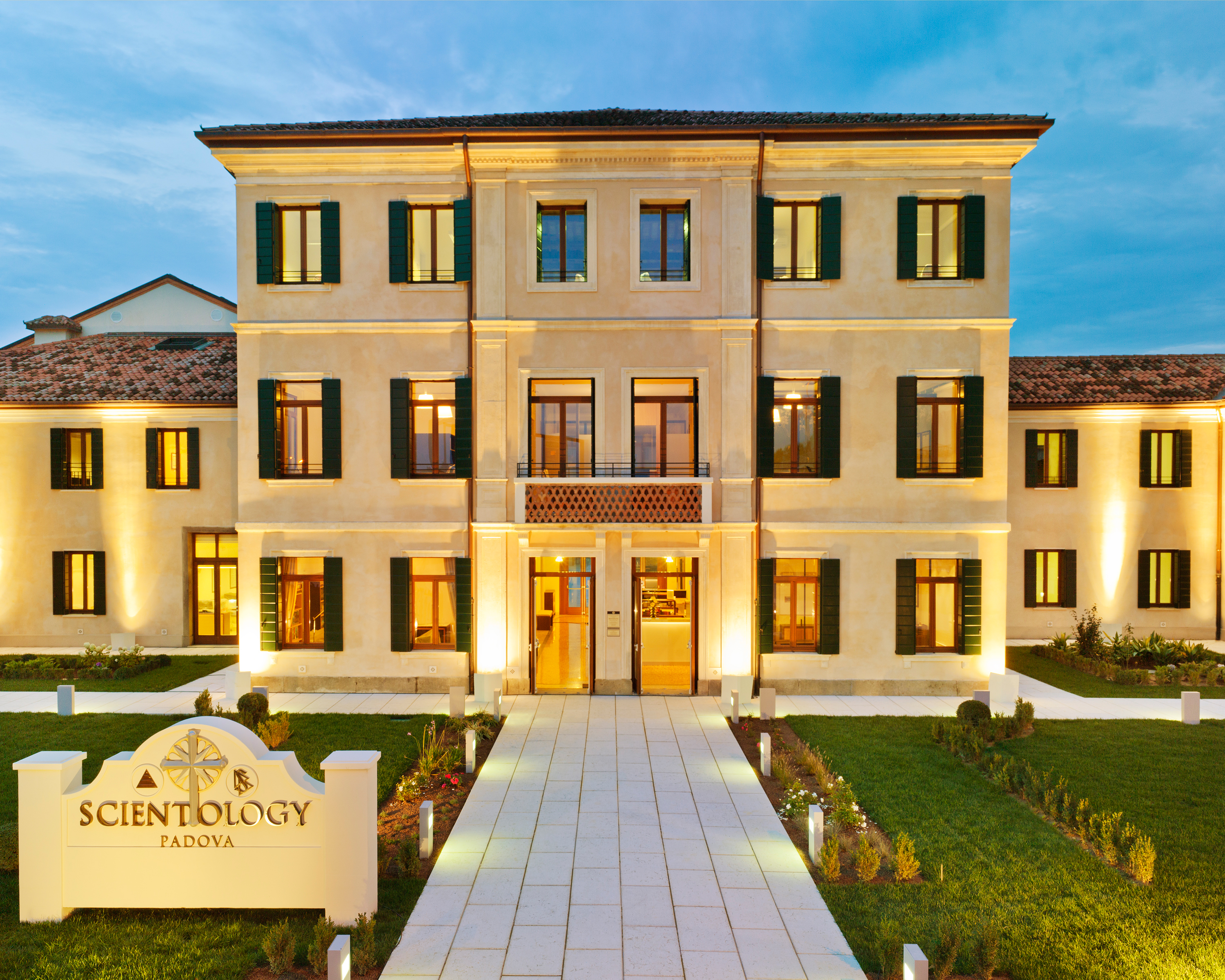 Church of Scientology Padova The Church of Scientology Ideal Organization stands in Padova’s northern district of Arcella. The Church fully restored the 18th century historic landmark, returning the Venetian Villa to its original glory.